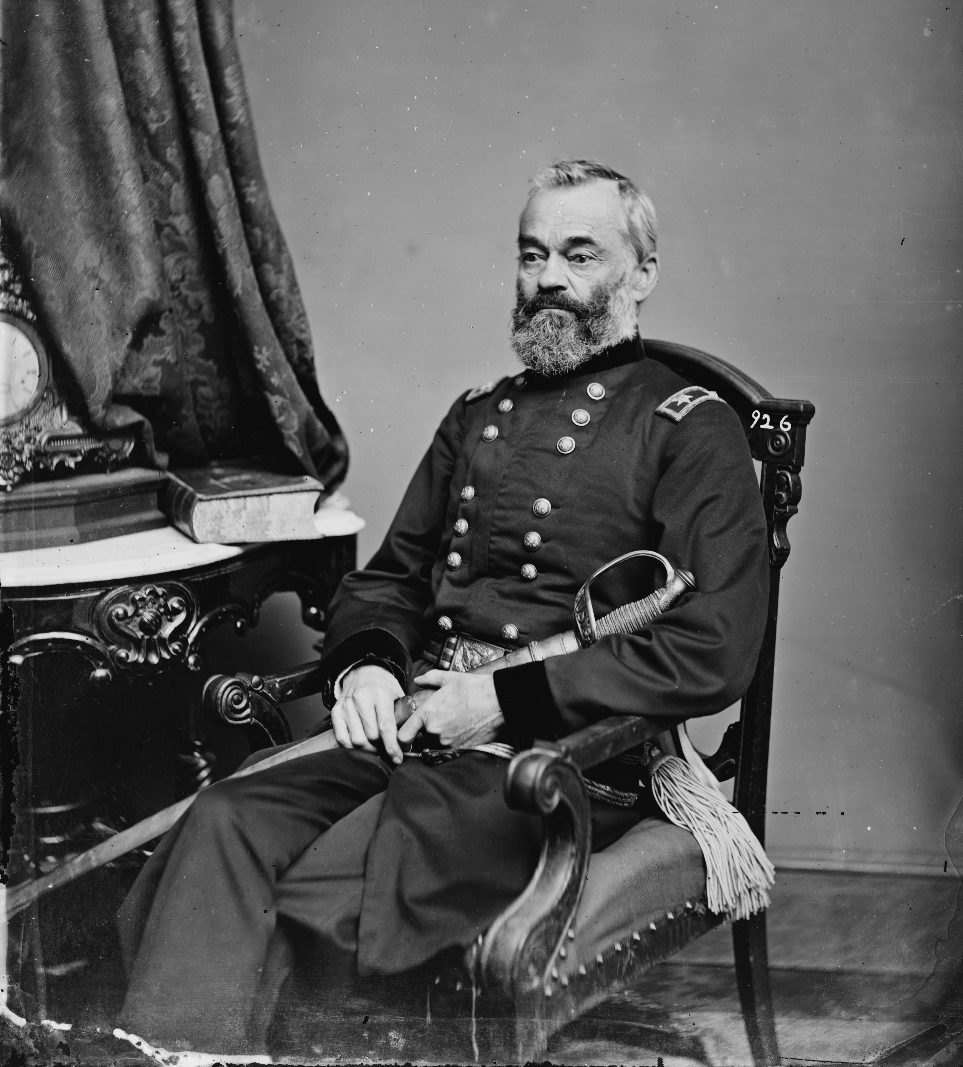 Samuel P. Heintzelman. Library of Congress description: "Gen. Heintzelman"